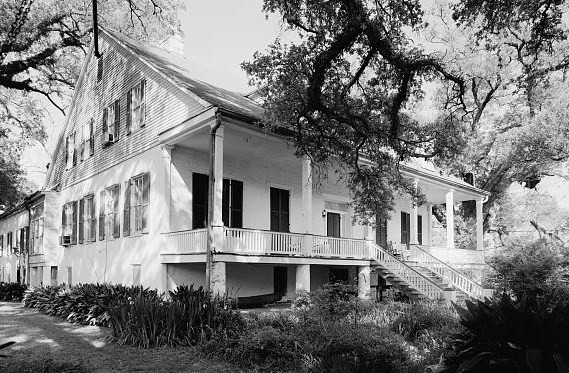 Magnolia Plantation, Louisiana Route 119, Derry, Natchitoches Parish, Louisiana. (cropped)